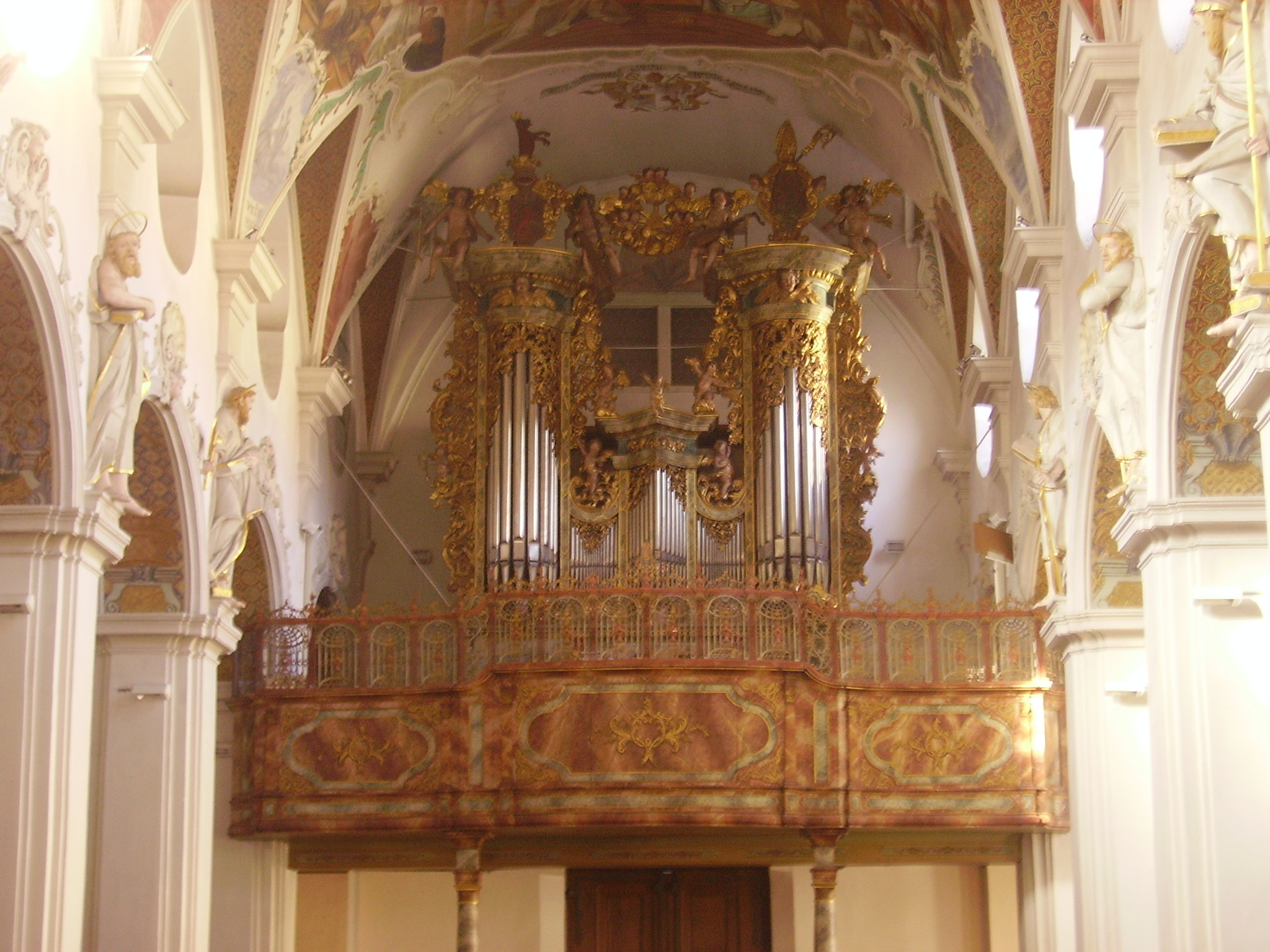 Organ of Schussenried Monastery Church st. Magnus, Bad Schussenried